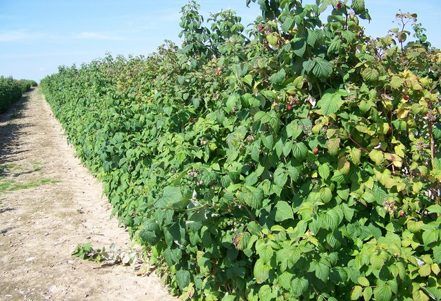 Raspberry Canes at Bake Farm. Bake Farm is a large pick your own fruit farm beside the A354.